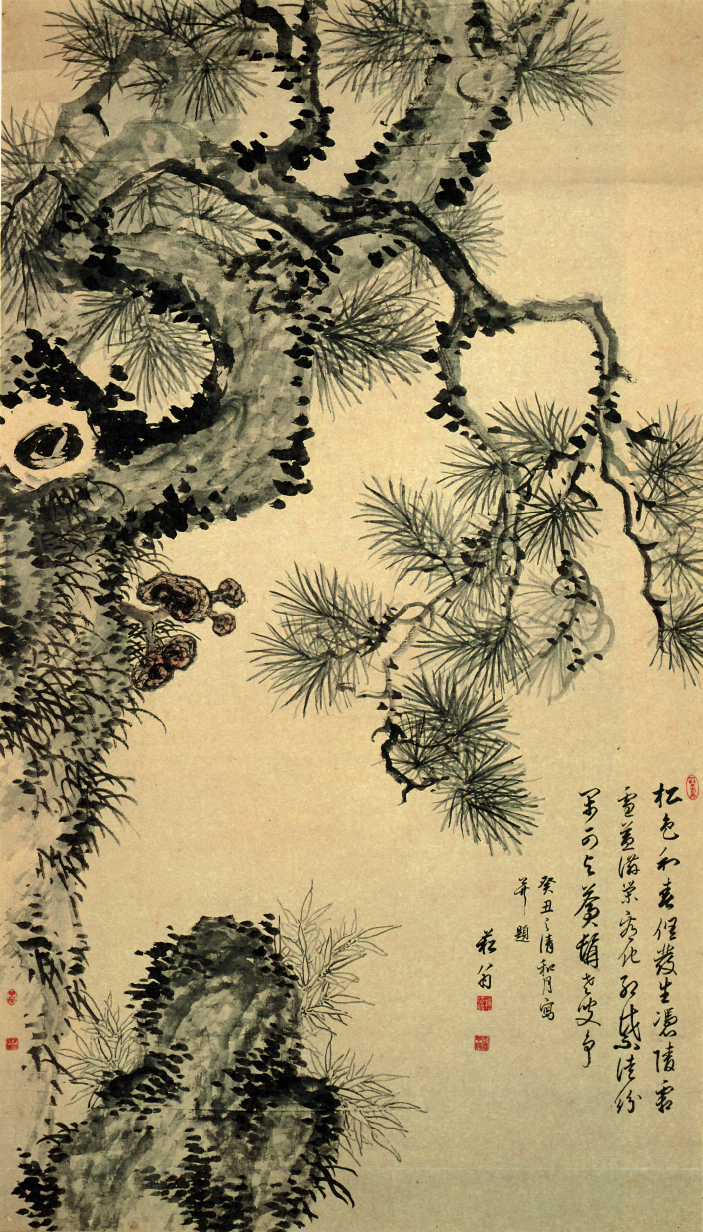 Nukina Sūō,Old Pine Tree,ink and light-color on paper,hanging scroll,The Shiga prefecture Lake Biwa Culture Center